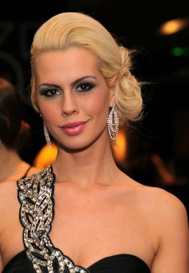 Tara Lynn Foxx at AVN Awards 2013